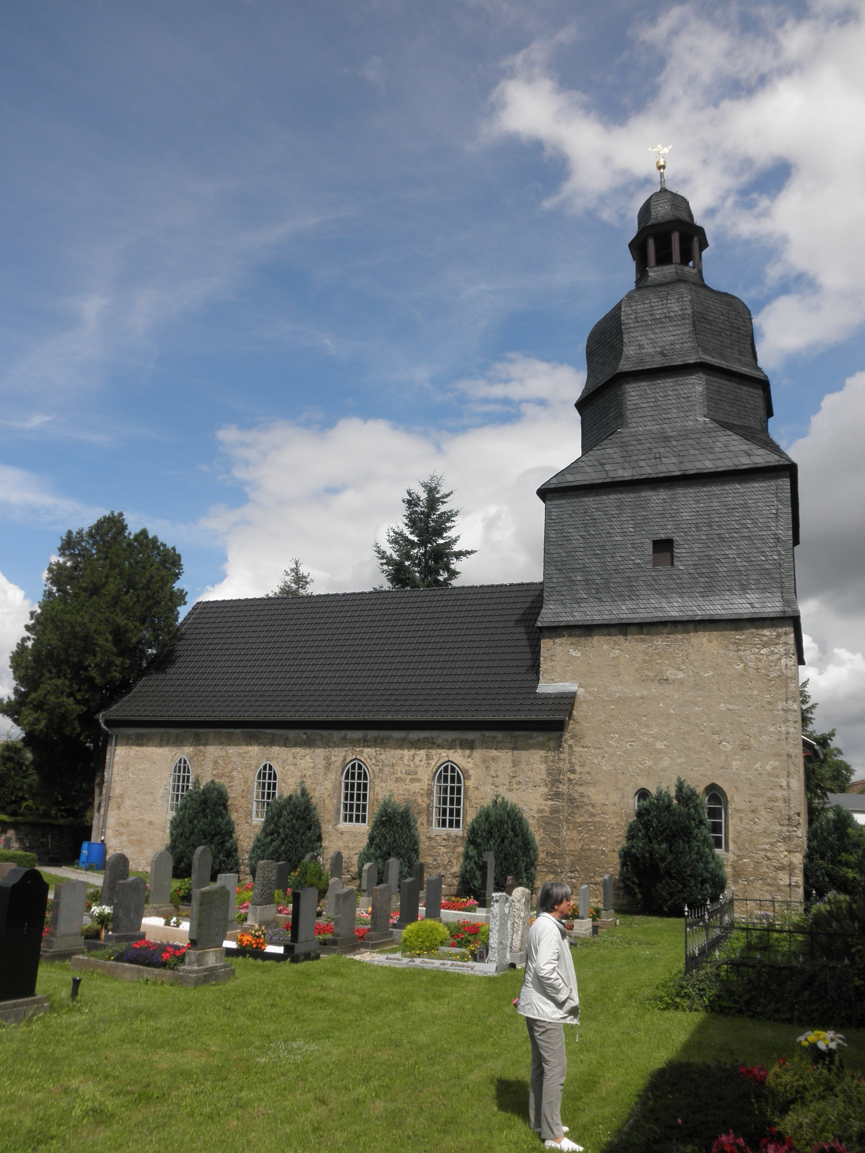 Church in Großromstedt (Saaleplatte) in Thuringia